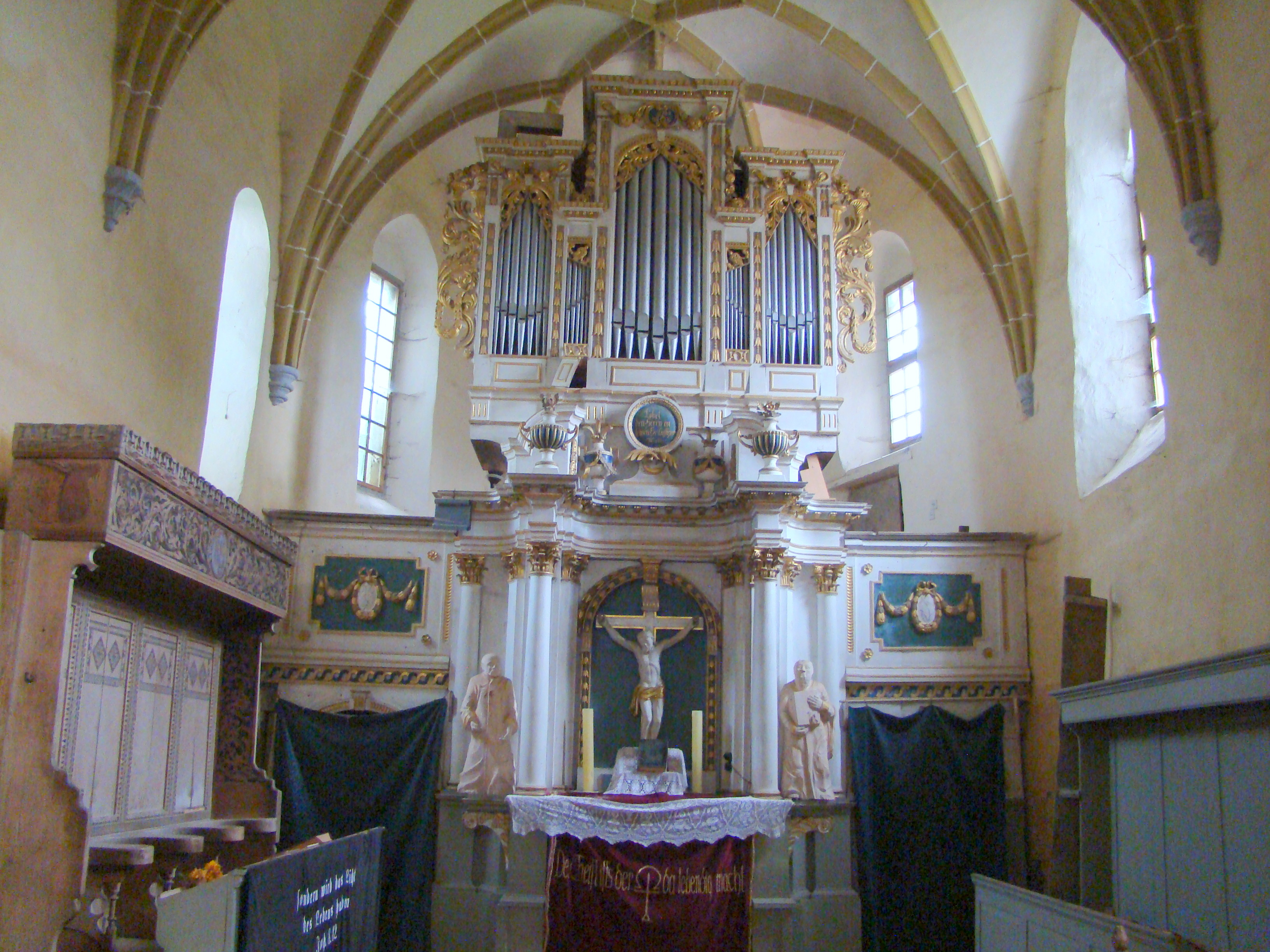 Fortified church in Dacia, Brașov County, Romania